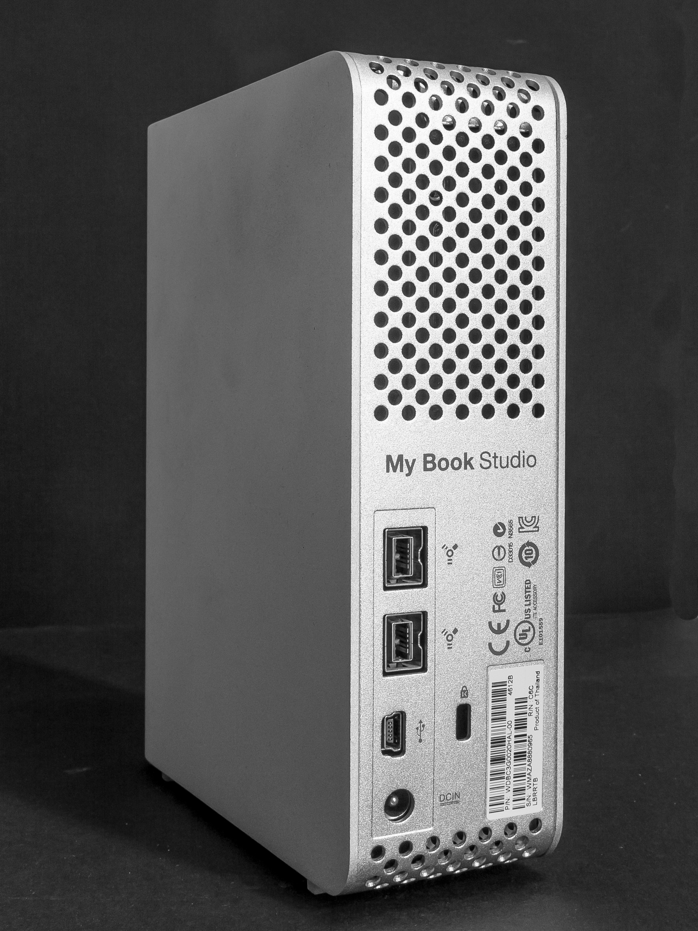 External hard drive: Western Digital My Book Studio with 1 USB 2 and 2 FireWire 800 (IEEE 1394b) ports